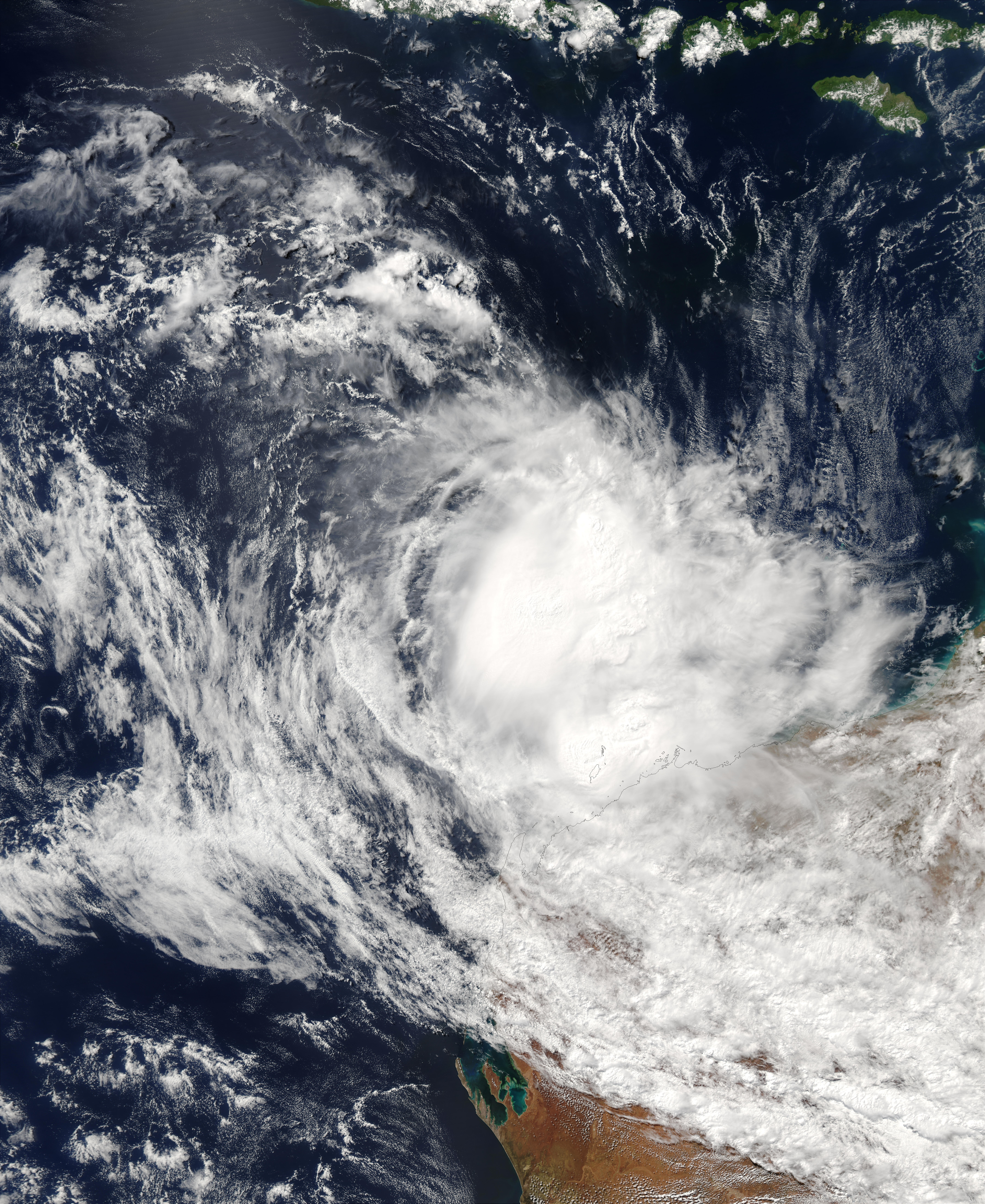 This image from the Moderate Resolution Imaging Spectroradiometer (MODIS) on the Aqua satellite shows Tropical Cyclone Inigo making landfall over the northern coast of Western Australia Territory. The storm is looking less organized than on previous days.